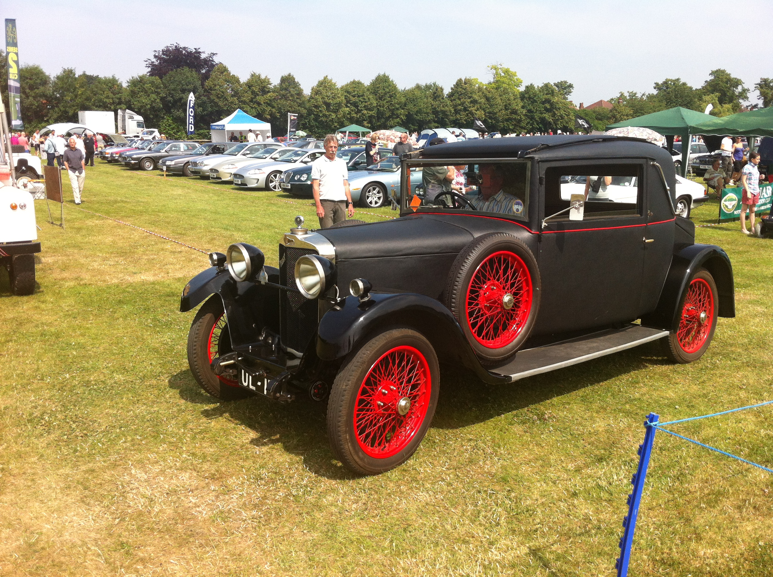 1929 Talbot 14/45 close-coupled faux cabriolet (DVLA) UL 1119, first registered 5 January 1929, 1694cc Doncaster Classic Car Show 2013 see Bonham's auction 16246, RAF Hendon, 21 April 2008